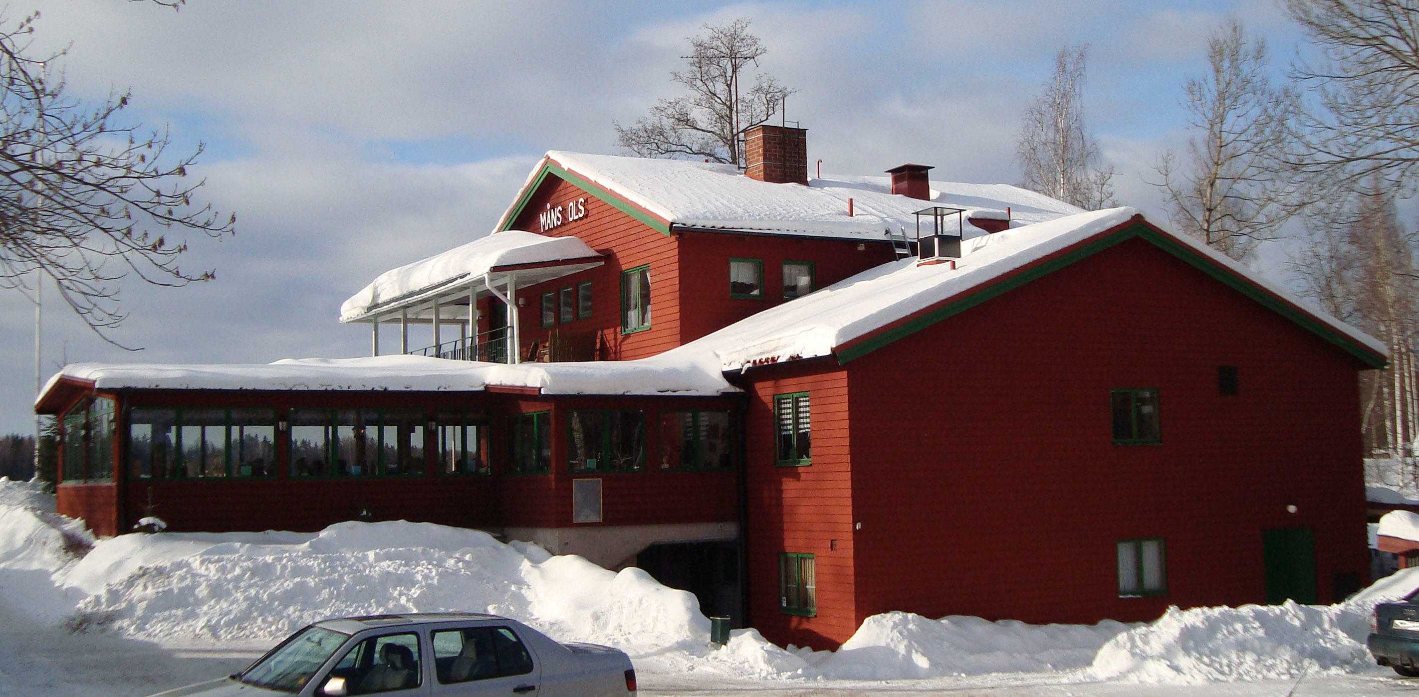 Inn Måns Ols, Sala, Västmanland, Sweden.